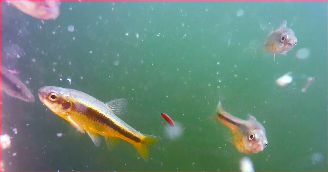 South Africa, buffelshoek,2012october14,, by Etienne van Zyl